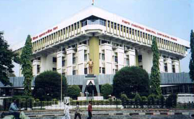 PCMC (Pimpari-Chinchwad Municipal Corporation) Building